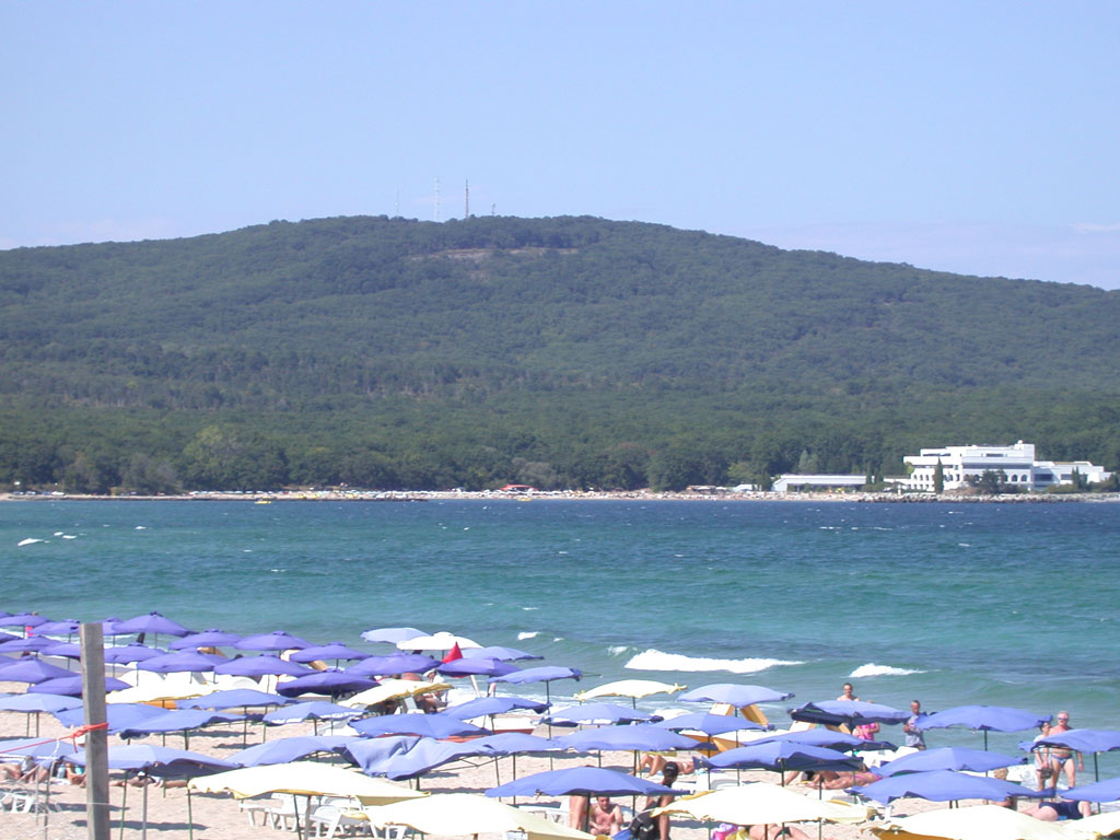 North beach of Primorsko and Kitka peak (215 m) - Bulgaria